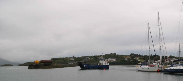 Rerrin, Bear Island. At the far end of the harbour beyond the ferry is Rerrin village. The ferry is adjacent to a red buoy which is supposed to mark a rock!! Taken from the marina in 7343